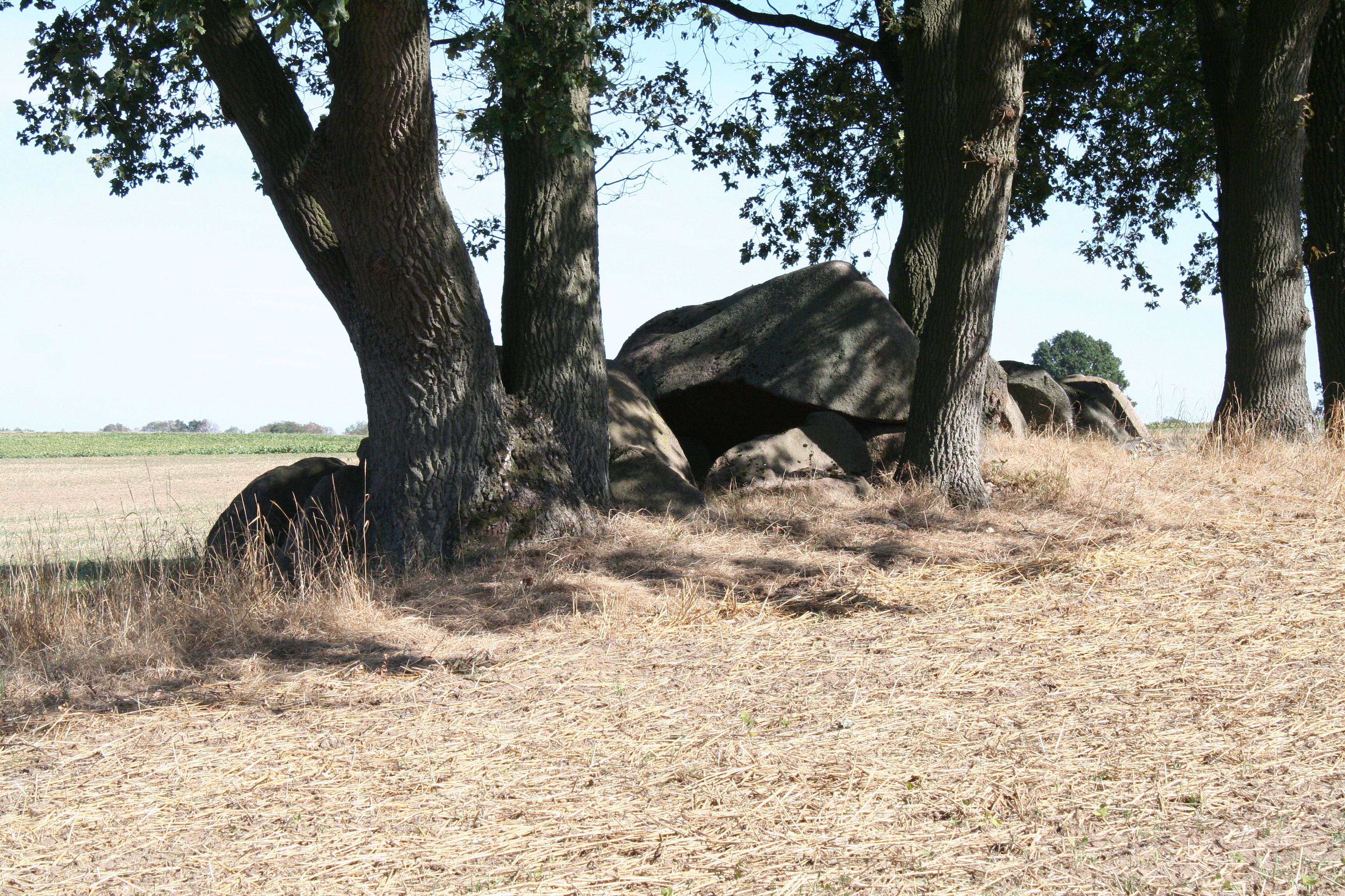 Megalithic tomb Bornsen 1